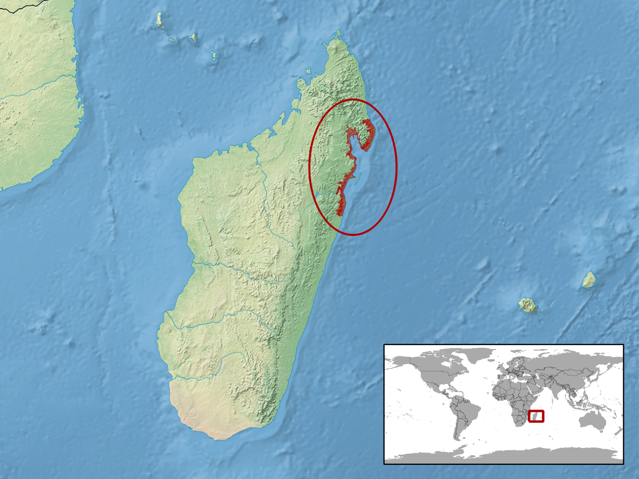 geographic distribution of Phelsuma serraticauda (Native: Madagascar)